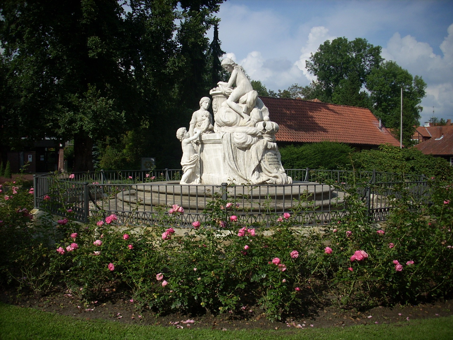 Celle, Caroline Mathilde Memorial